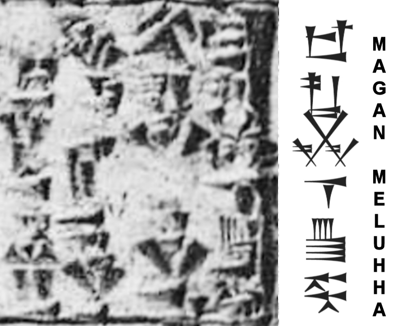 Gudea cylinder A (IX 19) Magan Meluha with transcription